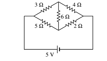 Circuito com cinco resistências